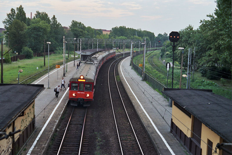 Częstochowa Raków train station in Poland. EN57 train.